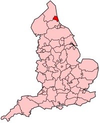 map of Tyne and Wear within England